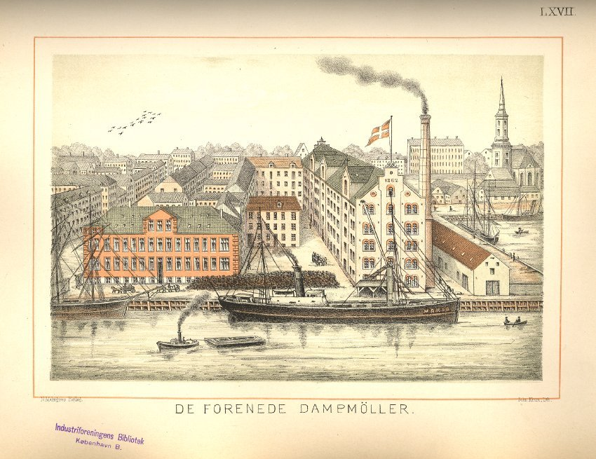 De forenede Dampmøller in Christianshavn, Copenhagen, Denmark